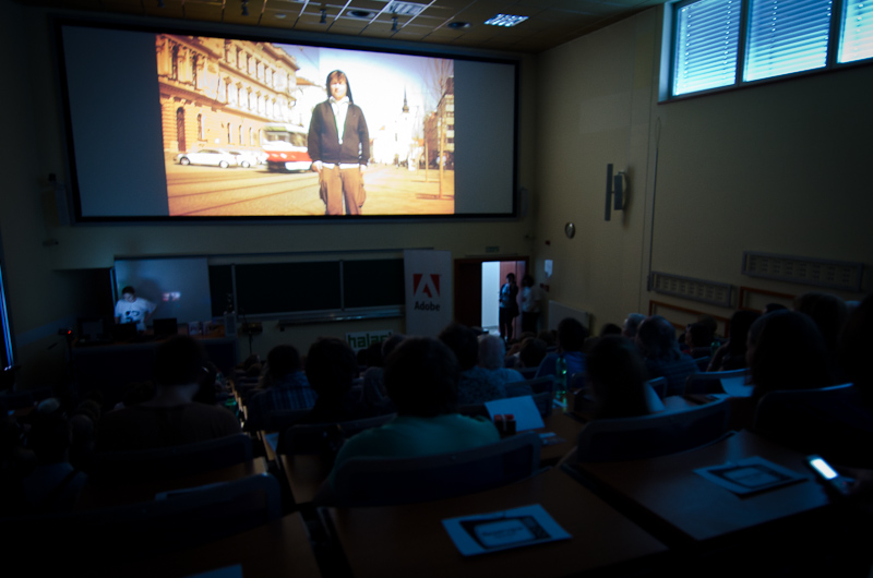 Faculty of Informatics Film Festival, Masaryk University, Brno, Czech RepublicEsperanto: Filmfestivalo de la Fakultato de informadiko, Masaryk-Universitato, Brno, Ĉeĥio